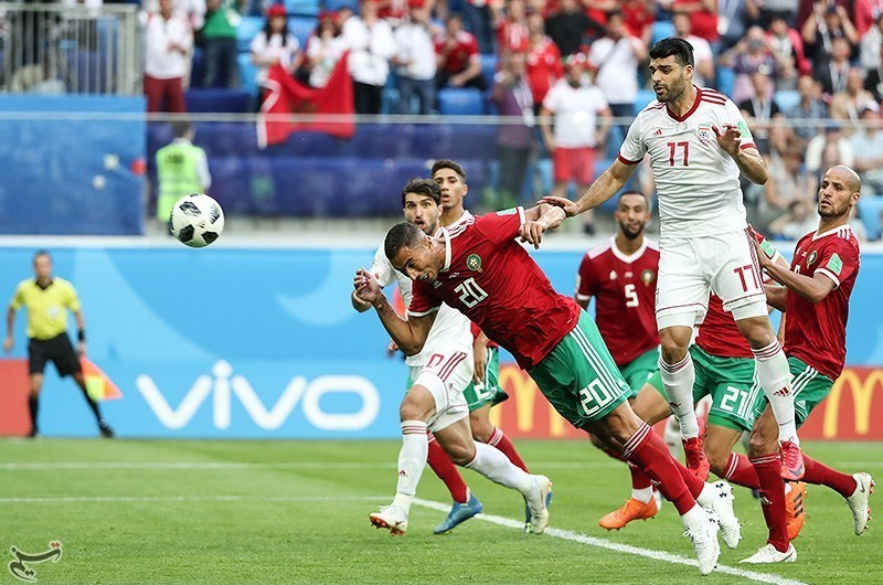 Iran-Morocco match, Group B, 2018 FIFA World Cup